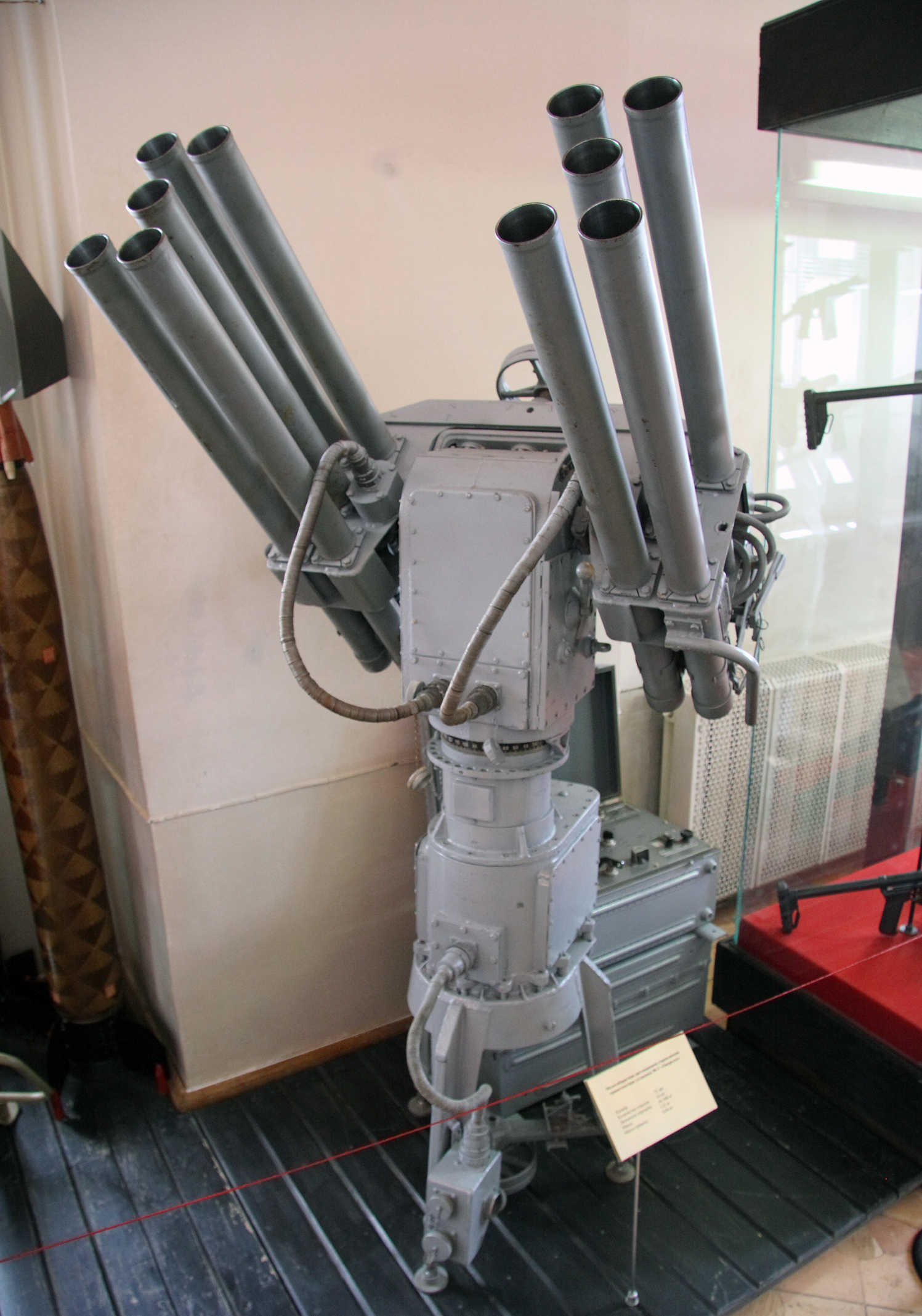 55-mm countersabotage grenade thrower 98U „Ozherelye“